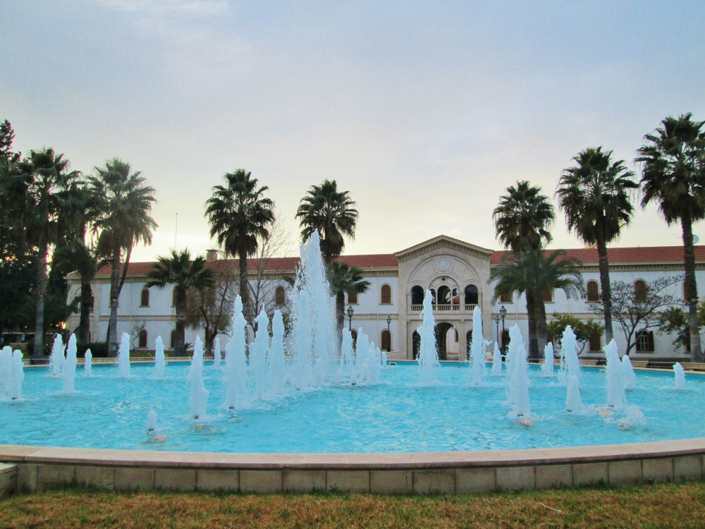 Gardens of Kykkos Monastery Orthodox Christian church Nicosia Republic of Cyprus